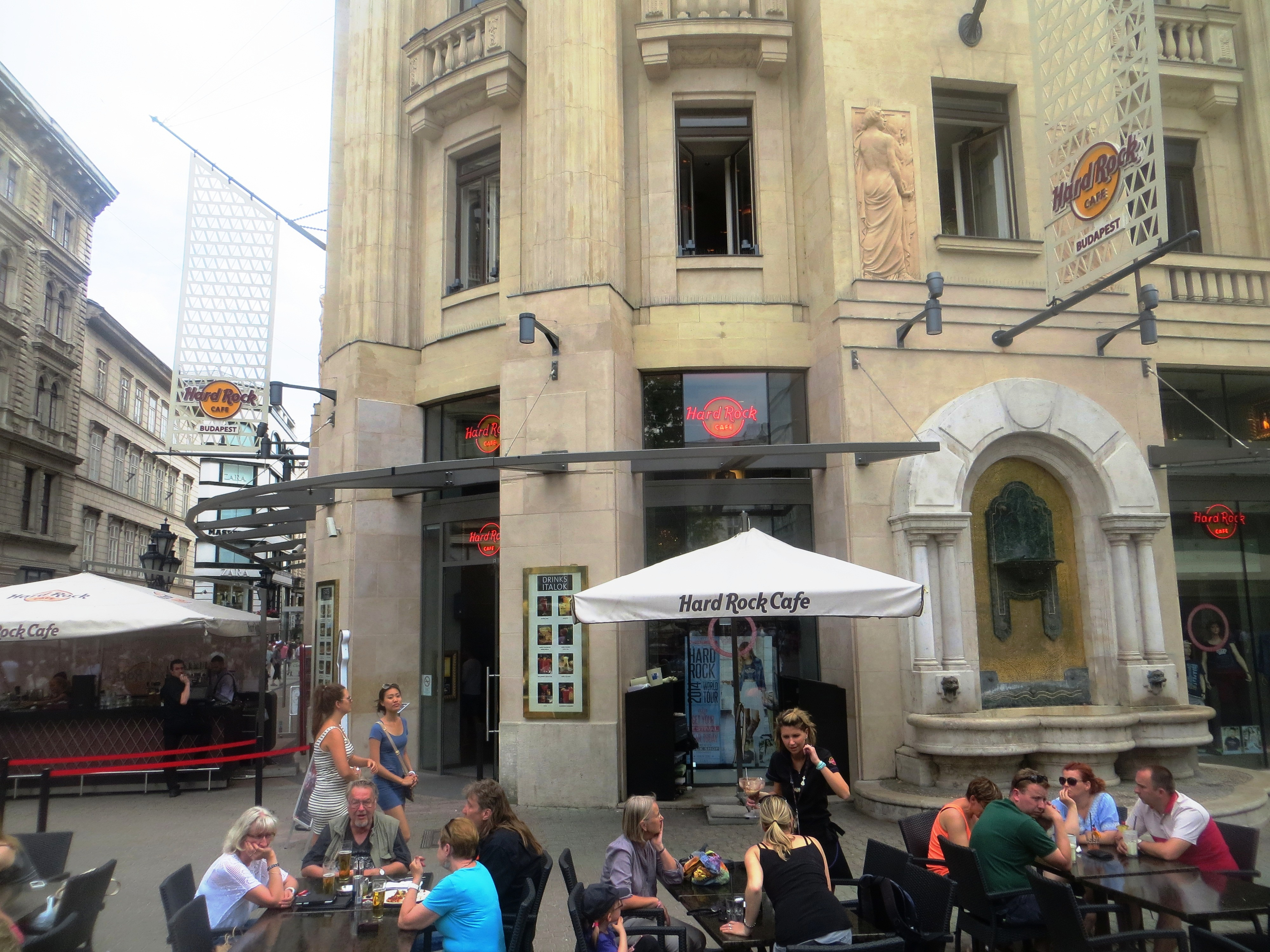 A former bank later Stock exchange building by Ignác Alpár, built in 1910s, Eclectic style. Listed ID 451. Now luxury department store, a Hard Rock Cafe part of its. Wall's Well. László Wild and László Haraszti architects work. 1986. Bronze and limestone with Mosaic. - Post Ancient Greek or Roman limestone relief(s) (naked half naked persons, plants in Art Nouveau style) are Géza Maróti sculptor and Müller Ernő (stonemason) work. 1915.- - Váci Street, Deák Ferenc Street, Vörösmarty Square, Budapest District V., Hungary.